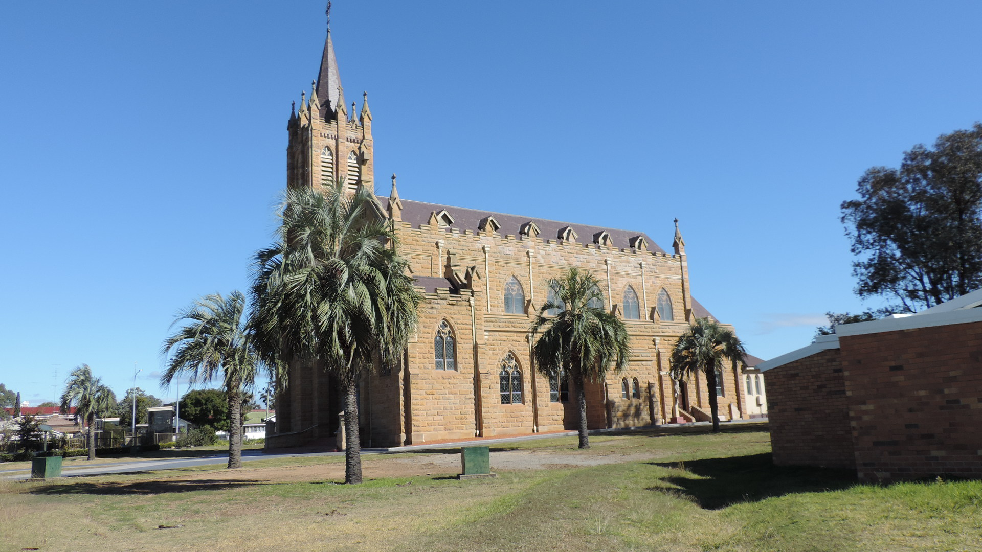 Second St Mary's Roman Catholic Church, 163 Palmerin Street, Warwick, 2015